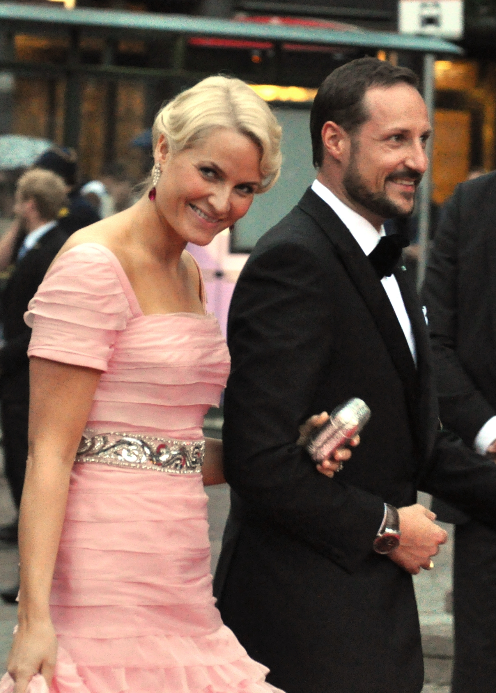 Wedding of Victoria, Crown Princess of Sweden, and Daniel Westling; Arrival of members for the Gouvernment and Swedish and foreign guests of hounour to the Riksdag's Gala Performance at Konserthuset